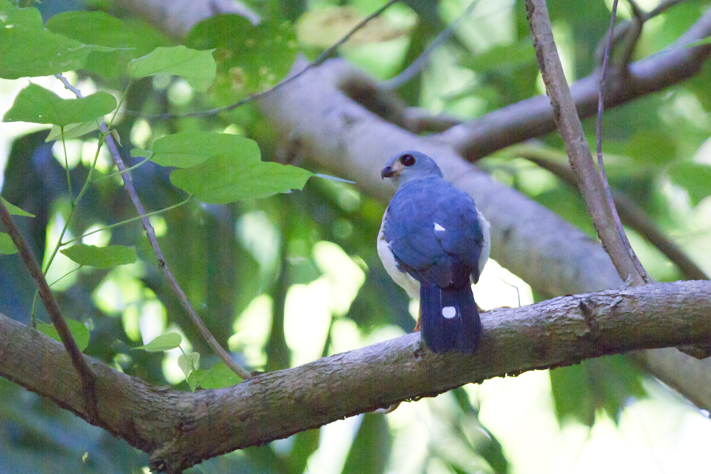 spot-tailed goshawk - Accipiter trinotatus, Tangkoko lodge, northern Sulawesi, 2011-04-19 (4 of 10).jpg